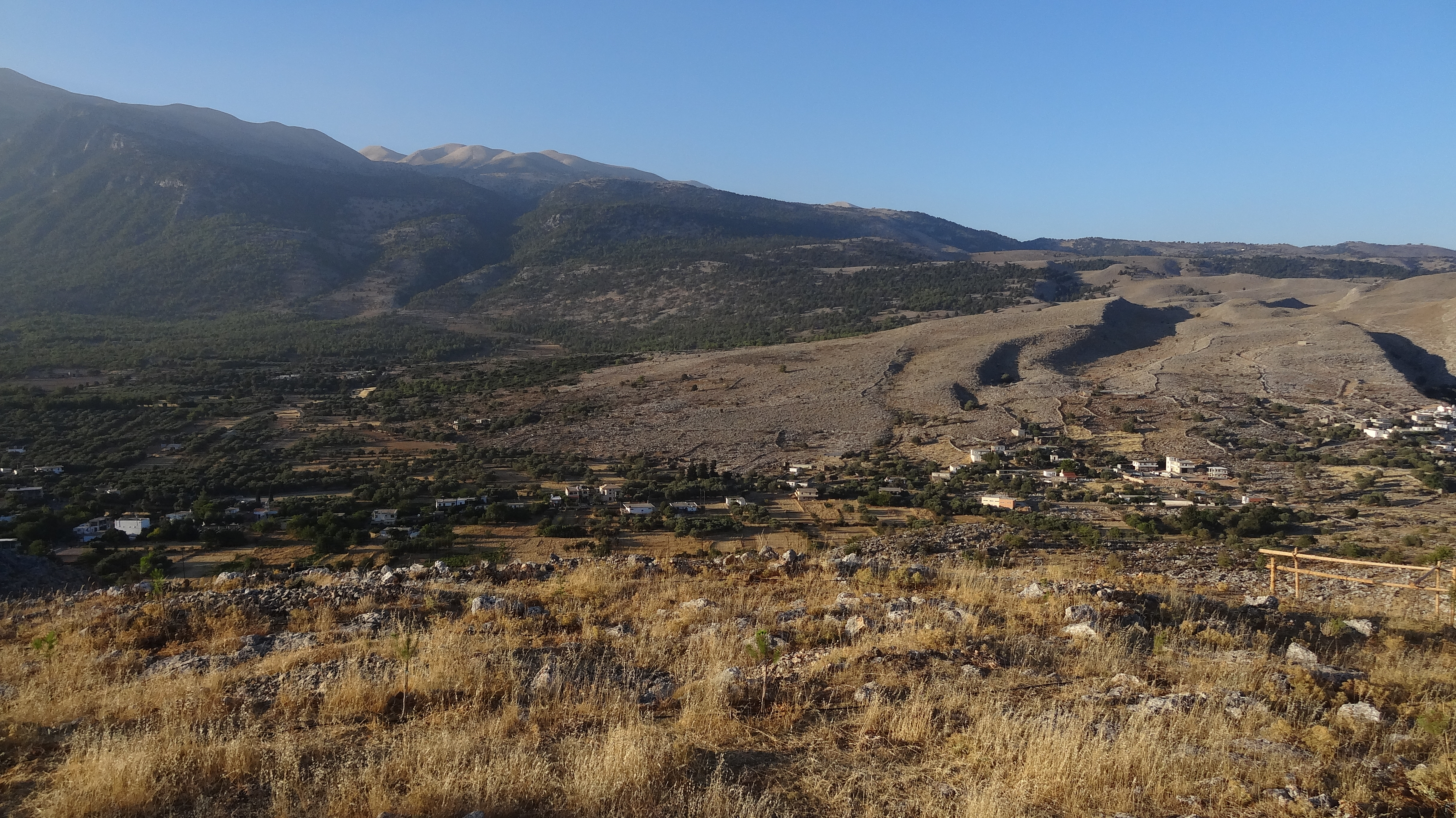 Village of Anopolis. View to the north. Lefka Ori in the background